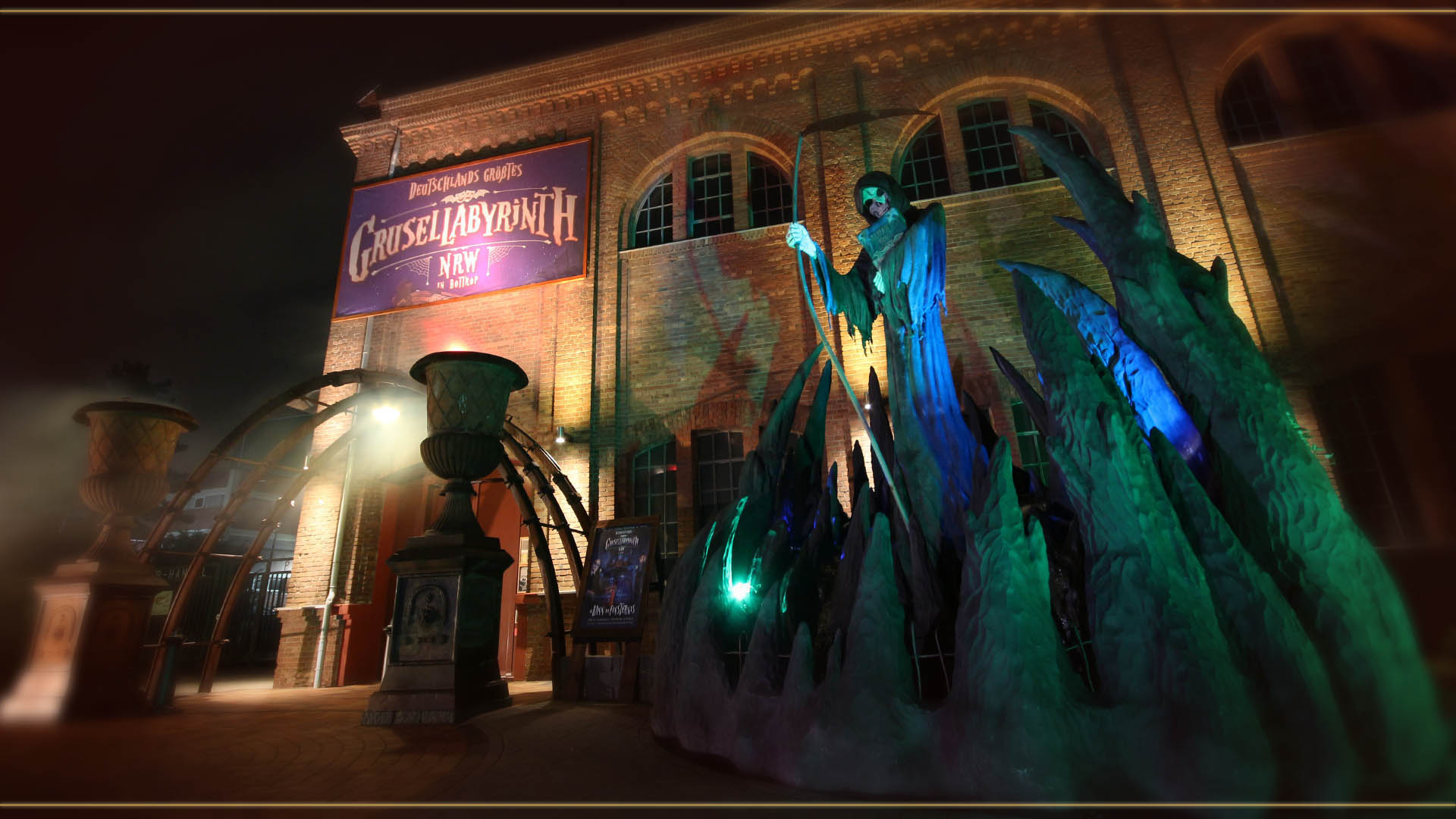 Aussenansicht vom Gebäude des Grusellabyrinths NRW